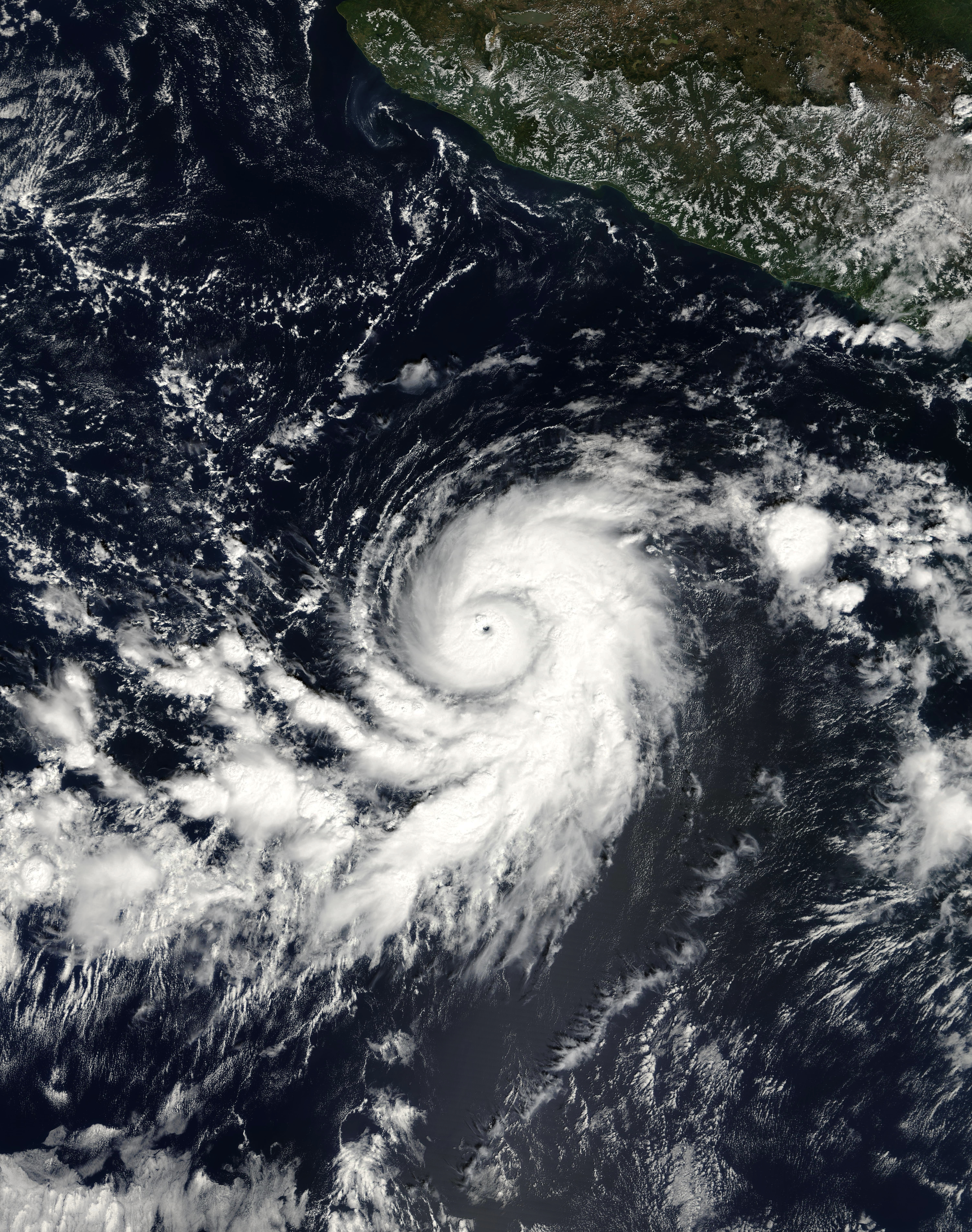 Hurricane Sergio was spinning off the coast of Mexico on the morning of November 15, 2006. Sergio was the tenth hurricane in the Eastern Pacific in 2006. When Sergio first reached tropical storm status on November 13, it broke a record set in 1961, the last time more than one tropical storm formed in the Eastern Pacific in November, according to the National Hurricane Center. Tropical Storm Rosa formed in the Eastern Pacific earlier in November 2006. While the hurricane season officially runs until the end of November, late storms are unusual. Only five other storms on record have formed later in the season than Sergio. It is also unusual for tropical storms that form this late in the season to intensify all the way to hurricane strength as Sergio had done. This photo-like image of Hurricane Sergio was acquired by the Moderate Resolution Imaging Spectroradiometer (MODIS) on the Terra satellite on November 15, 2006 at 17:25 UTC (10:25 a.m. local time). At this time, Sergio was a well-defined spiral ball of clouds with a distinct central eye and cloudwall around the eye. Peak sustained winds were 165 kilometers per hour (105 miles per hour), according to the University of Hawaii’s Tropical Storm Information Center, making Sergio a Category Two strength hurricane. Terra MODIS saw the storm very near its peak strength. It continued to intensify slightly for a short while after MODIS obtained this image. But within hours, wind shear began to pull apart the neat organization of the storm, robbing it of power.